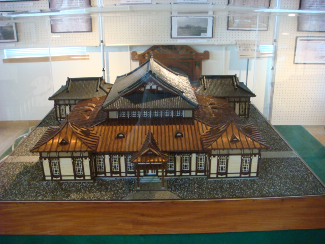 1/50th scale model of the former main school building of Meiji Senmon Gakko founded in 1907 and opened in 1909, the forerunner of Kyushu Institute of Technology (KIT). The all-wooden building was designed by Tatsuno Kingo, a noted Japanese architect, but demolished in 1970. The model is in the KIT Tobata campus archives in Kitakyushu.